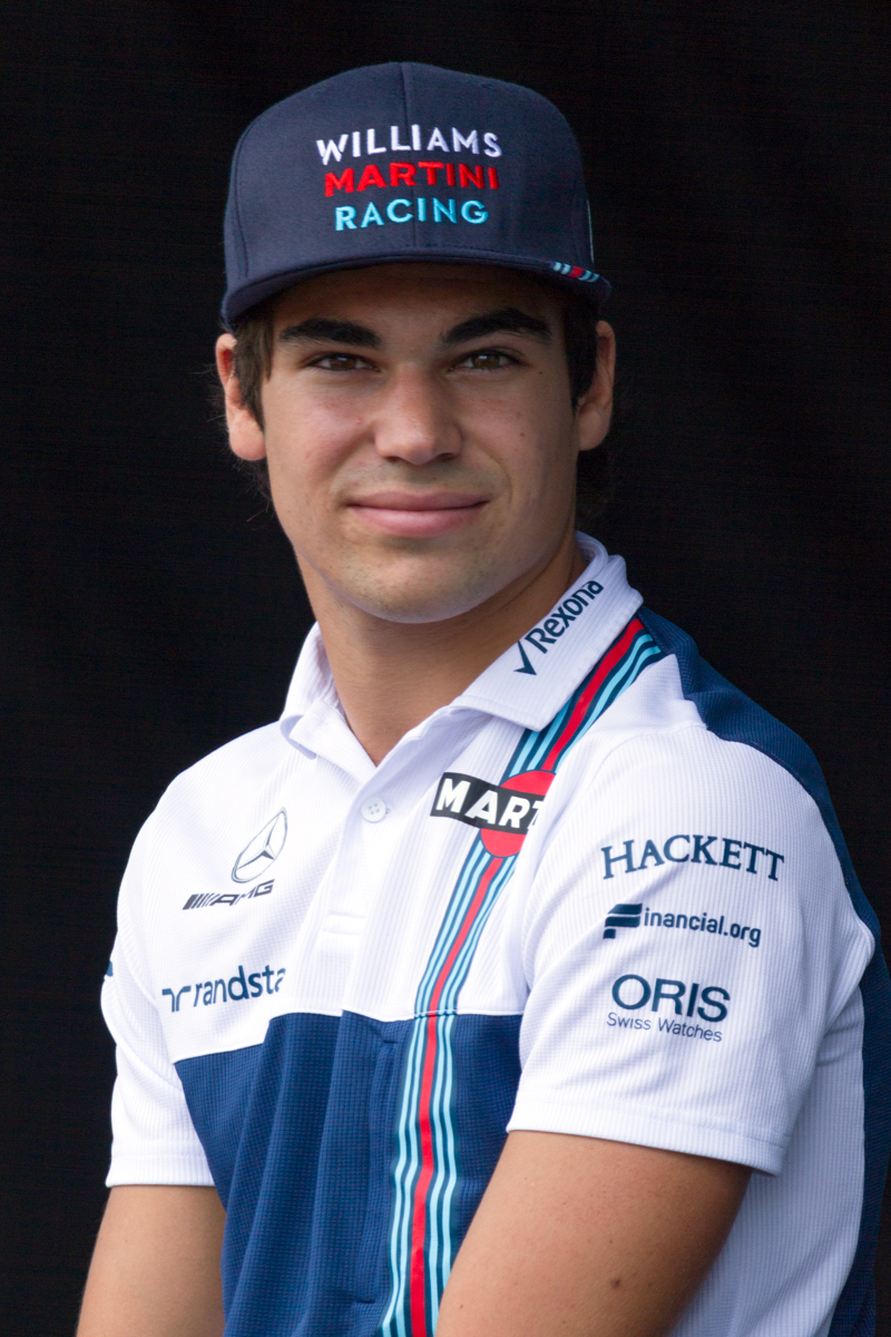 Formula One 2017 Rd.15 Malaysian GP: Lance Stroll (Williams) at the fan meeting